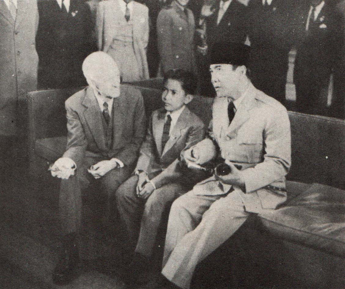 David Finley, Guntur, and Sukarno